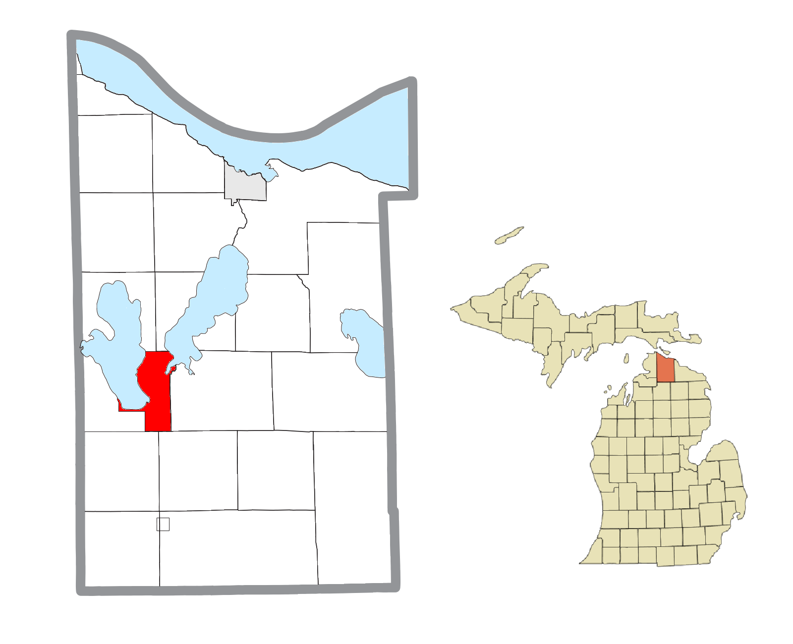 Indian River, MI